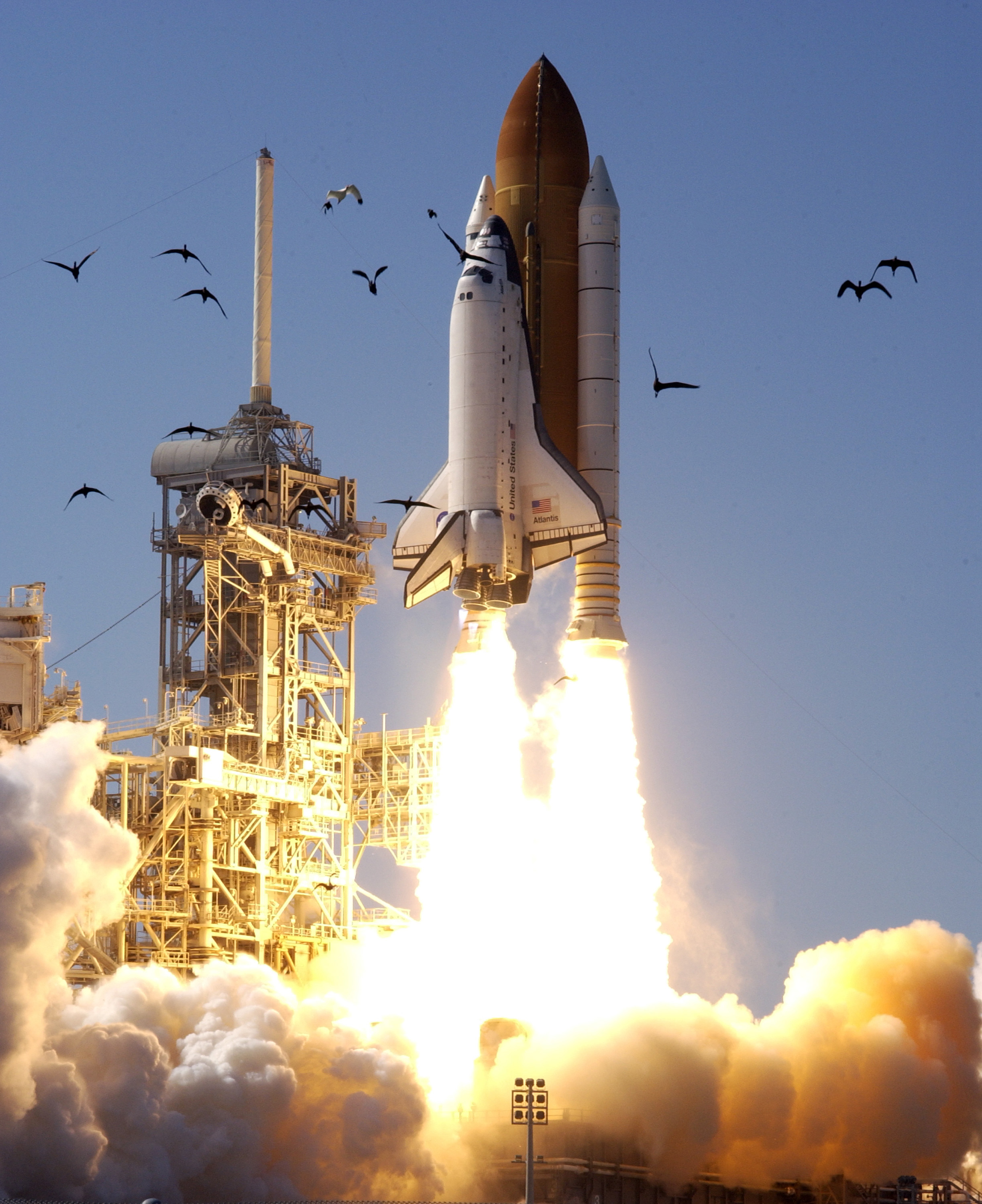 Space Shuttle Atlantis seems surrounded by birds - most likely pelicans - as it roars into the clear blue sky on mission STS-110. Liftoff occurred at 3:44:19 p.m. EDT (20:41:19 GMT). Carrying the S0 Integrated Truss Structure and Mobile Transporter, STS-110 is the 13th assembly flight to the International Space Station.